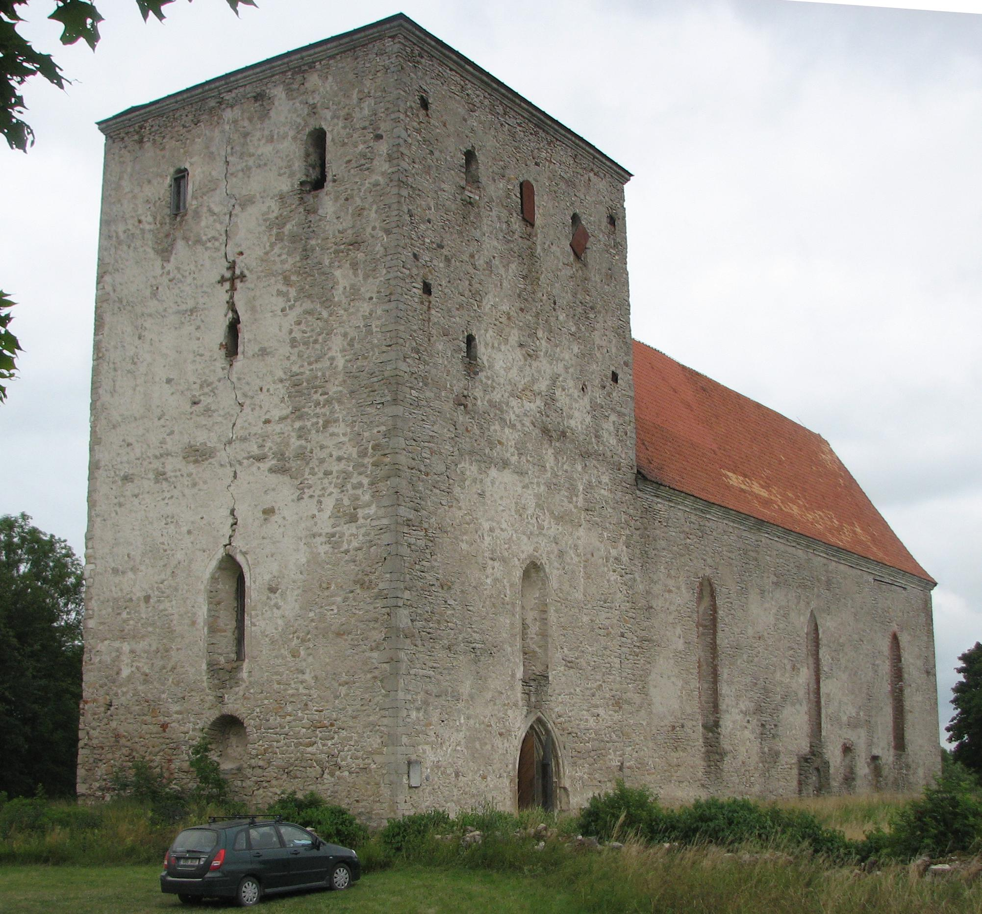 Pöide Church, Estonia. Taken from SW